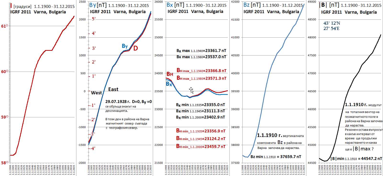 Varna,Bulgaria_IGRF_2011